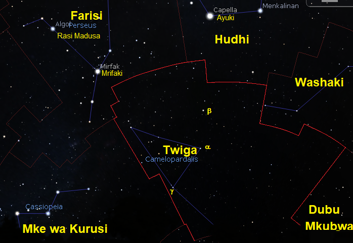 Constellation Camelopardalis as seen from Tanzania, Swahili labelled Kiswahili: Kundinyota Twiga (Camelopardalis) jinsi inavyoonekana kutoka Tanzania, majina kwa Kiswahili